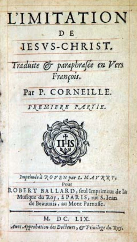 Title page of the Corneille's Imitation de Jésus-Christ (1659)